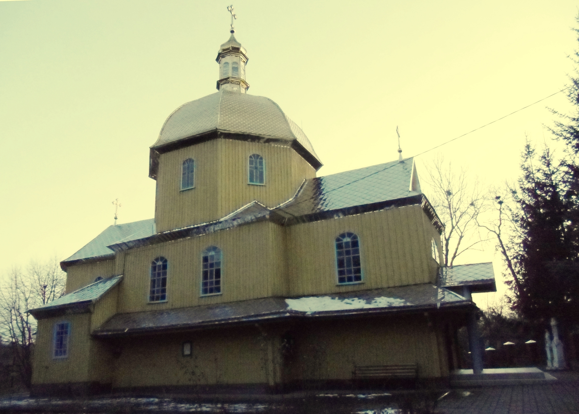 Church of St. Nicholas 1880. Dubanevychi (Horodok Raion). The church was built from 1870 to 1892. In 1870 Maria Fredro has allocated wood and hired of masters for the construction the church, which was consecrated in 1880.